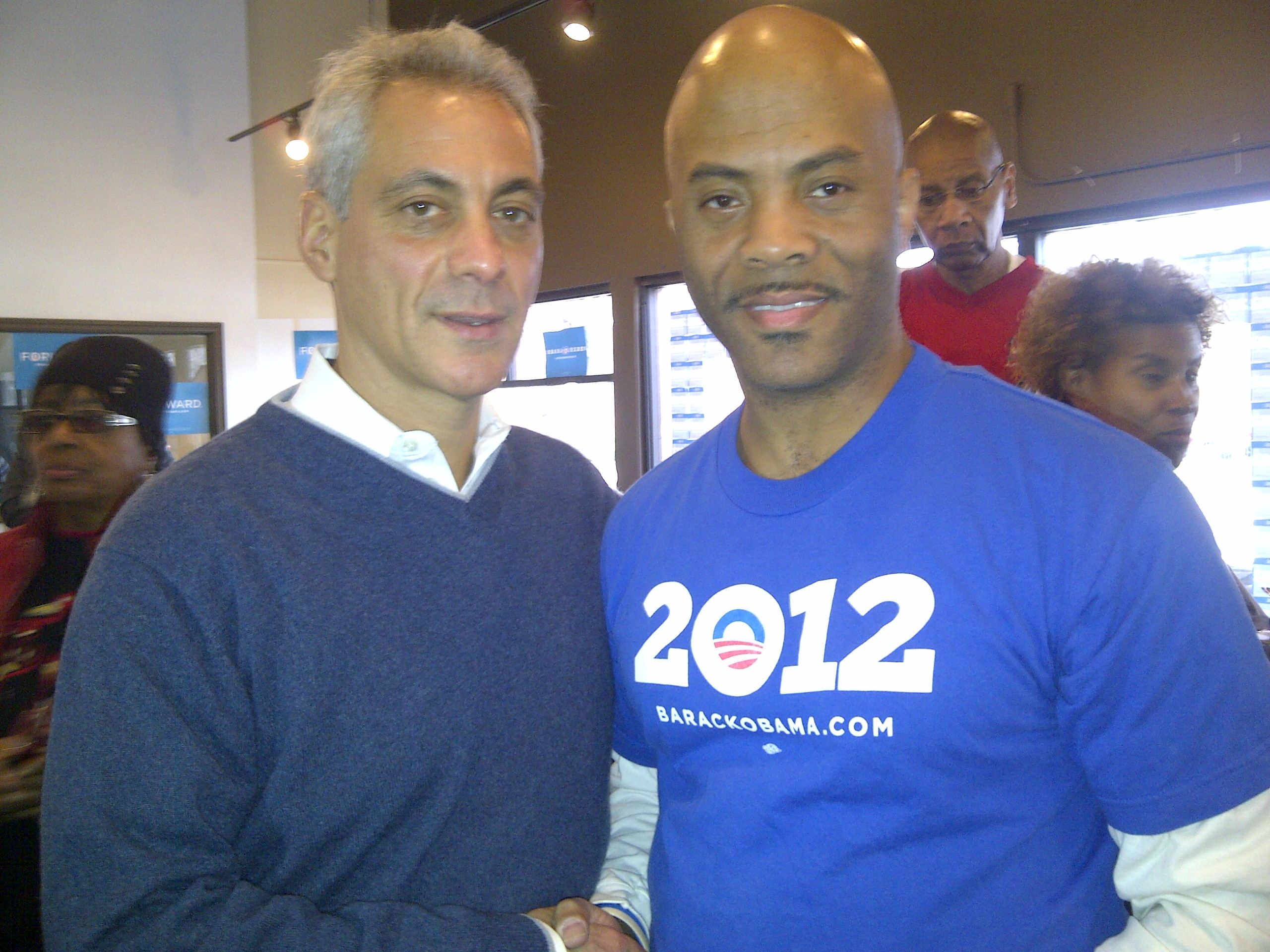 Rahm Emanuel with User:TonyTheTiger (Antonio Vernon) at the Hyde Park, Chicago Obama campaign office a few days before Election Day